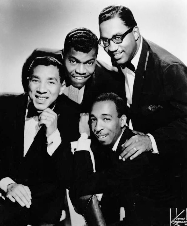 Trade ad for Smokey Robinson & the Miracles's single "Going To A Go-Go". To better adapt it to his respective Wikipedia article, the ad was cropped and cleaned in a graphics editing program. The original can be viewed on the source below.